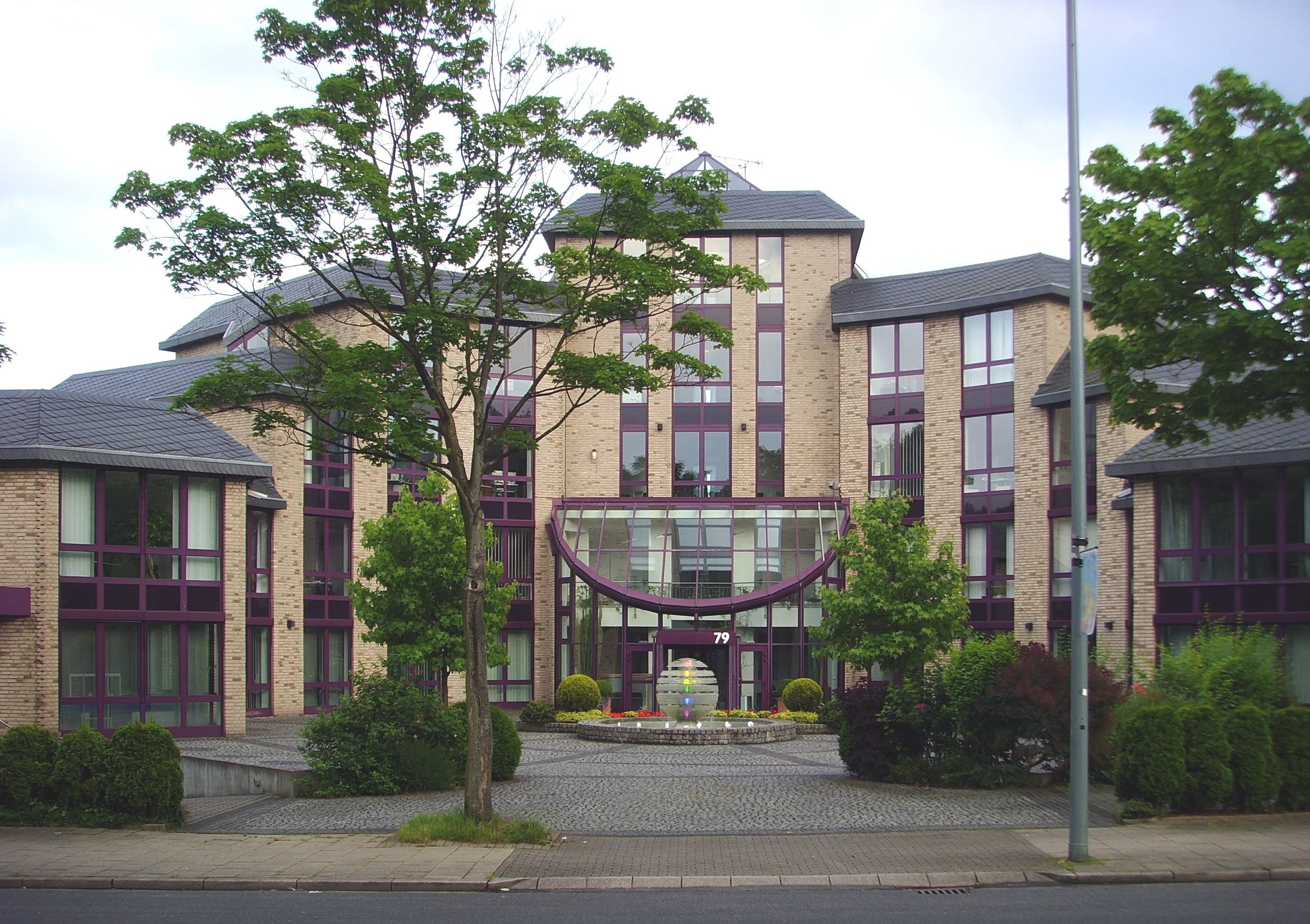 Firmensitz der Faber Lotto-Service KG an der Markstraße in Bochum : Head office of the Faber Lotto-Service Company Source: own work Date: 15 June 2008, Bochum, Germany Author: Maschinenjunge Licence: GFDL, cc-by 3.0